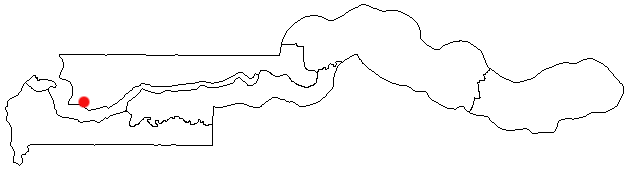 Lamin on North Bank Division, The Gambia Location Map